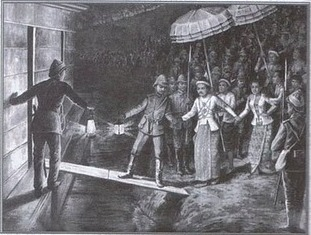 King Thibaw and the royal family forced into exile by the colonial British.